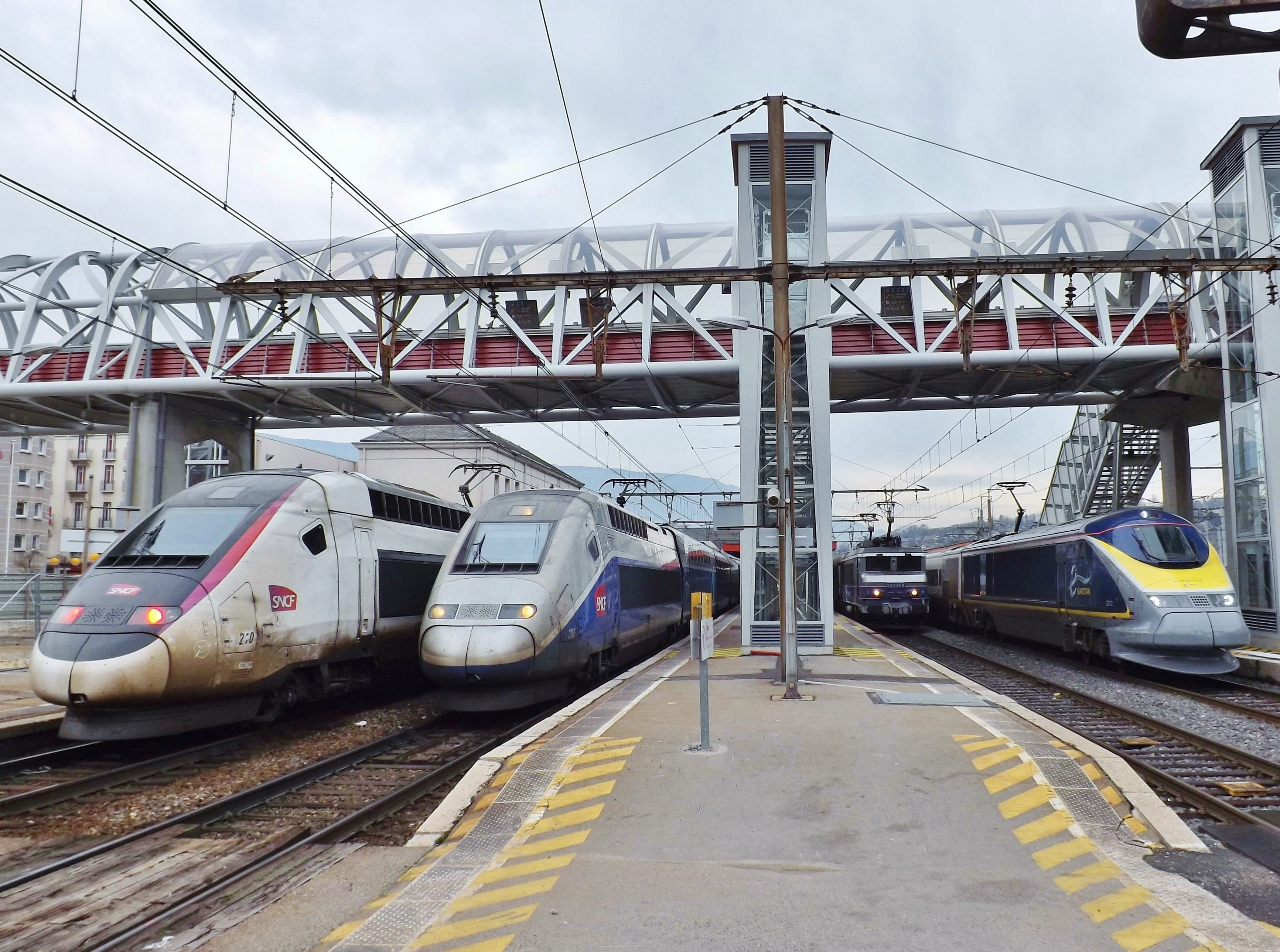 Winter service at Chambéry railway station in Savoie, France, with TGV 6434 from Bourg-Saint-Maurice to Paris (14:49—20:10), TGV 619 from Paris to Modane (13:35—18:20), TER 83429 from Chambéry to Modane (17:35—19:05) and Eurostar 9092 from London to Bourg-Saint-Maurice (9:45—18:50).